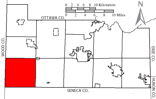 Made by the US Census and modified by User:Frank12